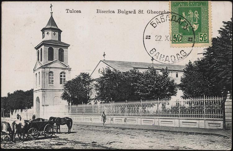 Bulgarian church "St George" in Tulcha, beginning of 20 century